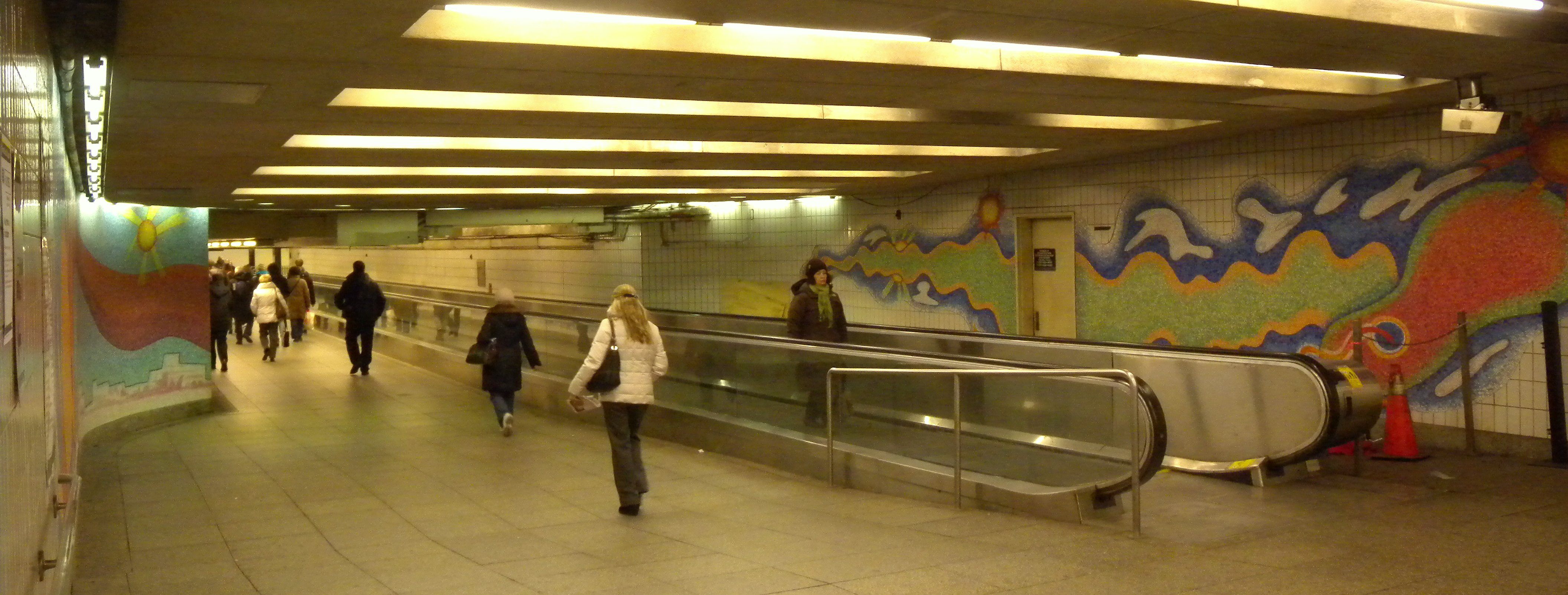 The (former) moving walkway connecting the G platform with the E and M at the Court Square station. The mosaic murals on the walls are entitled Stream.